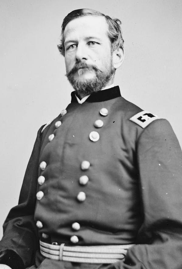 Portrait of Maj. Gen. Alfred Pleasonton (1824-1897), officer of the Federal Army